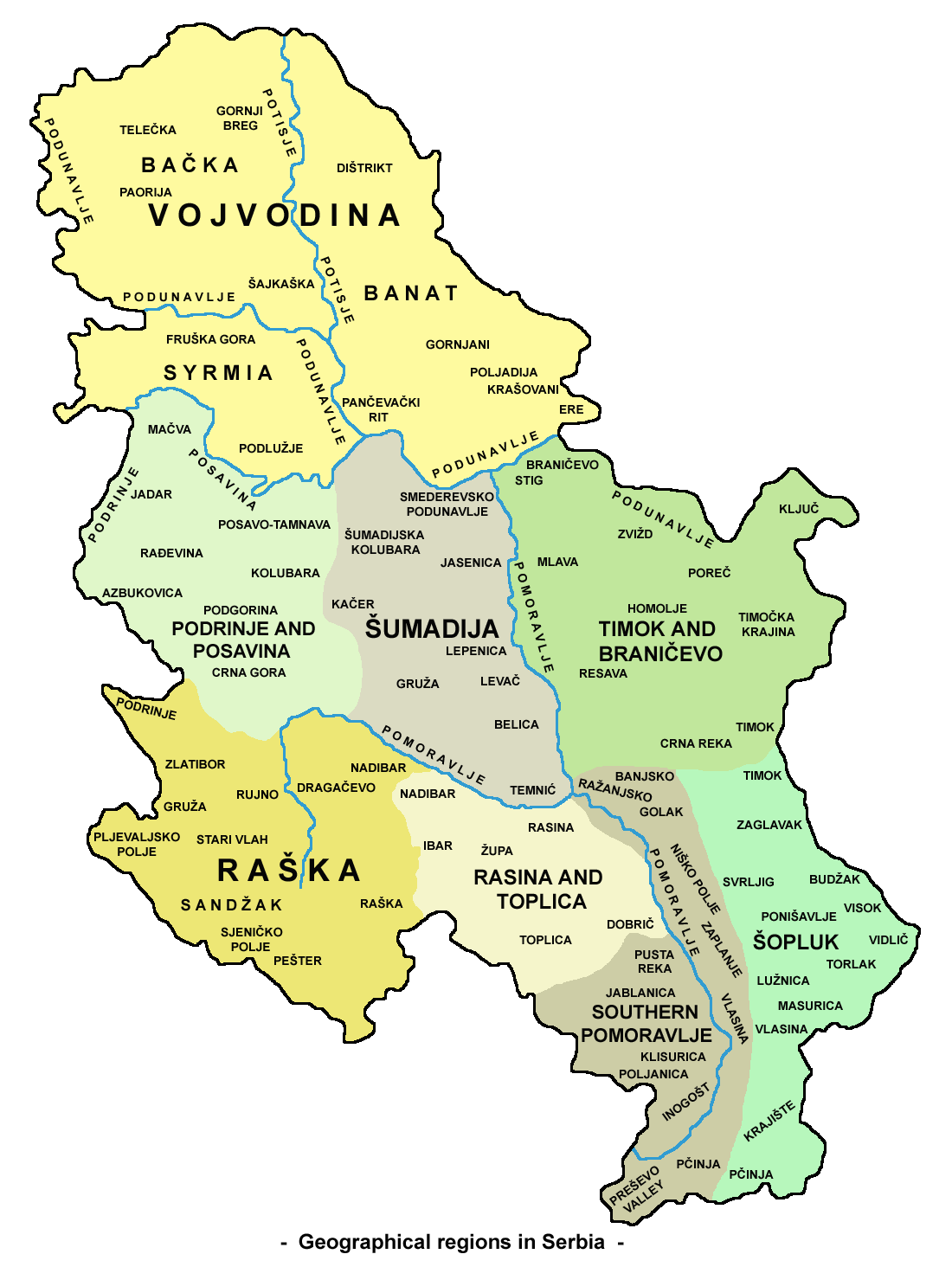 Map of geographical regions in Serbia (version without Kosovo).